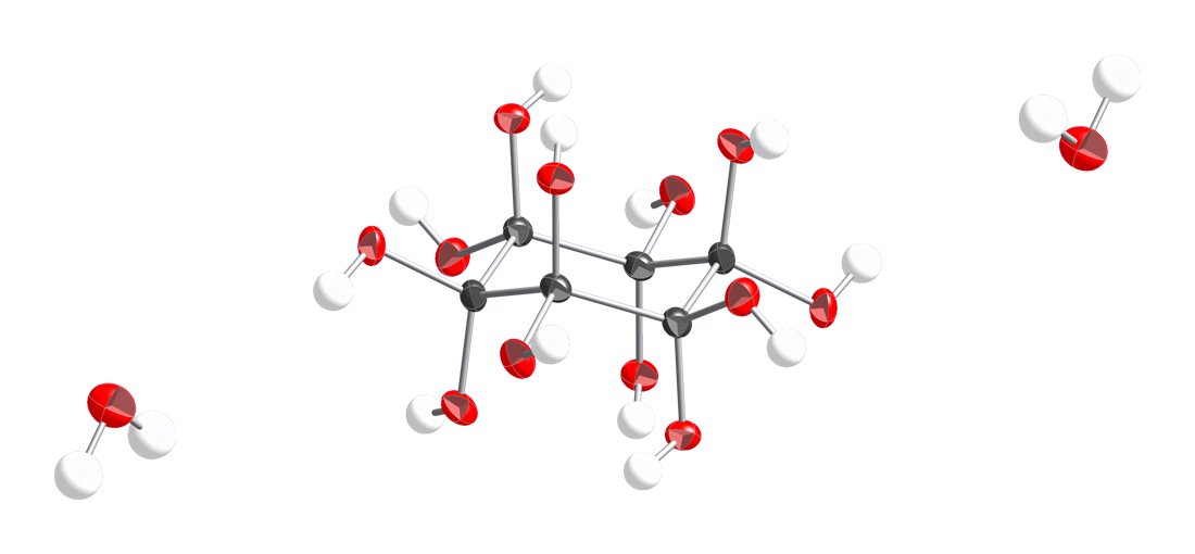 Thermal ellipsoid model of the molecular cell of dodecahydroxycyclohexane dihydrate, C6H12O12·2H2O, as found in the crystal structure. The thermal ellipsoids are drawn at the 50% probability level, except hydrogen for which is just given a standard sphere. X-ray crystallographic data from Acta Cryst. (2005). E61, o1393-o1395. Model constructed and image generated in CrystalMaker 8.1.